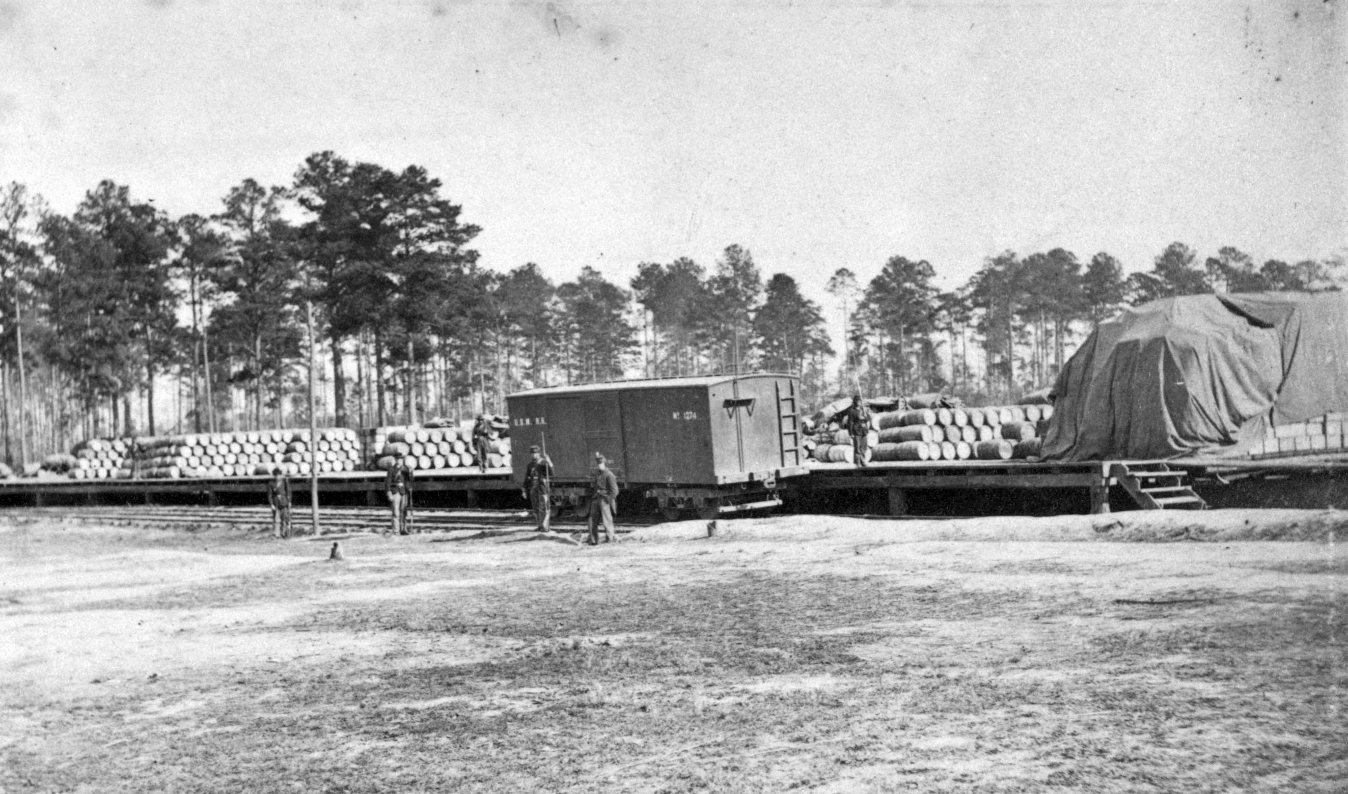 Cedar Level Station, City Point and Army Line, December, 1864. Photograph shows Union soldiers guarding supplies while standing near a railroad freight car.